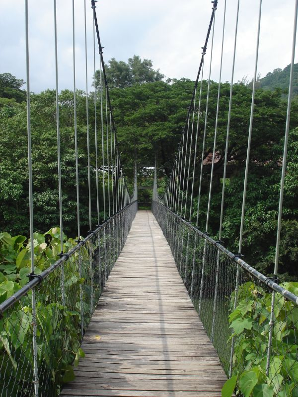 Sway bridge in Tenmala Tvm kerala